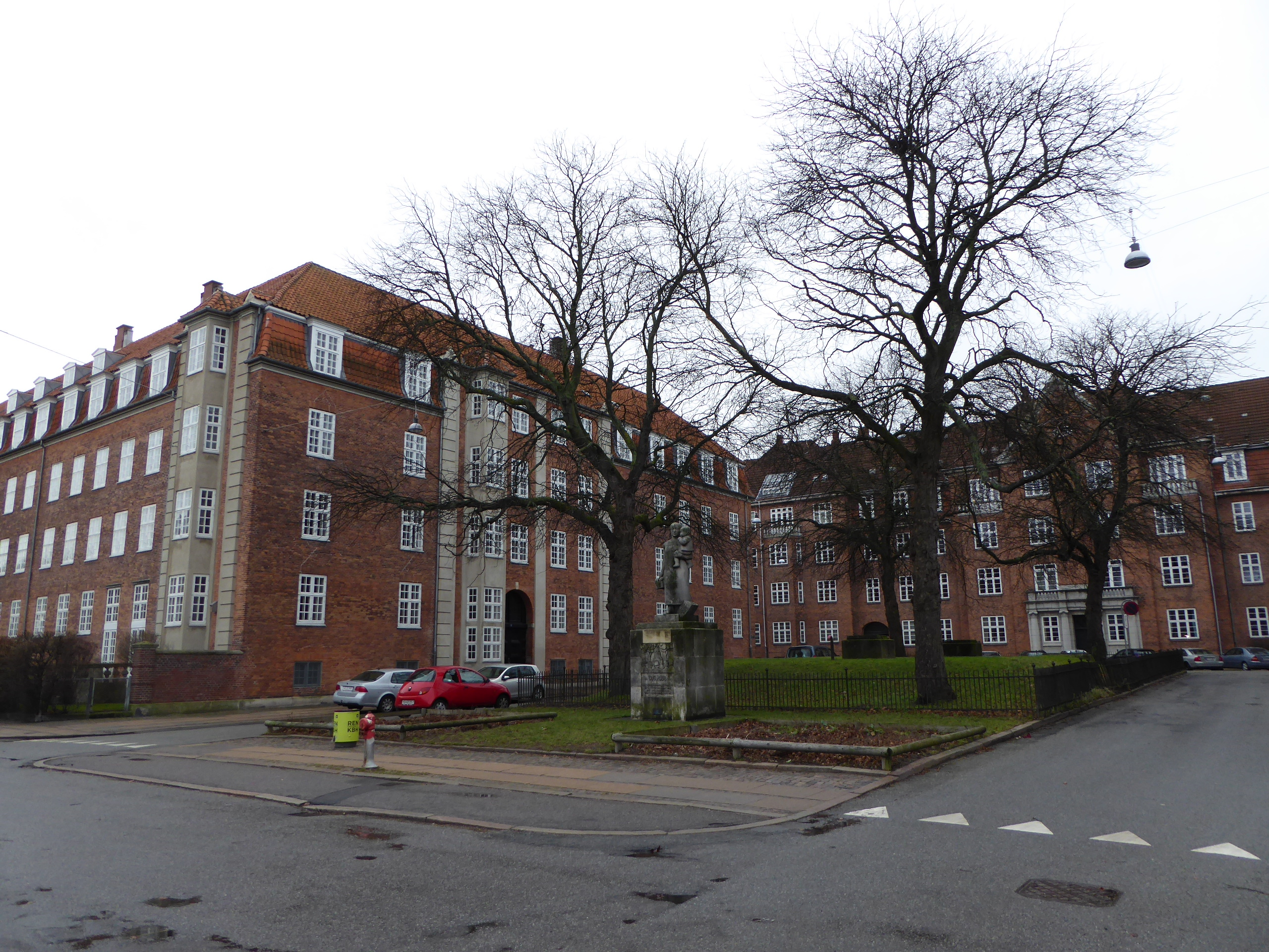 The square Ove Rodes Plads at Borgmester Jensens Allé in Østerbro in Copenhagen.